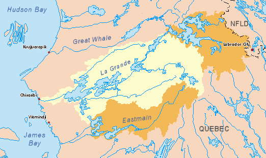 Drainage basin of the La Grande River, Quebec, Canada. For 2010 update, see File:La_Grande_map_2.png. Yellow = original basin Orange = diverted basins into the La Grande River.